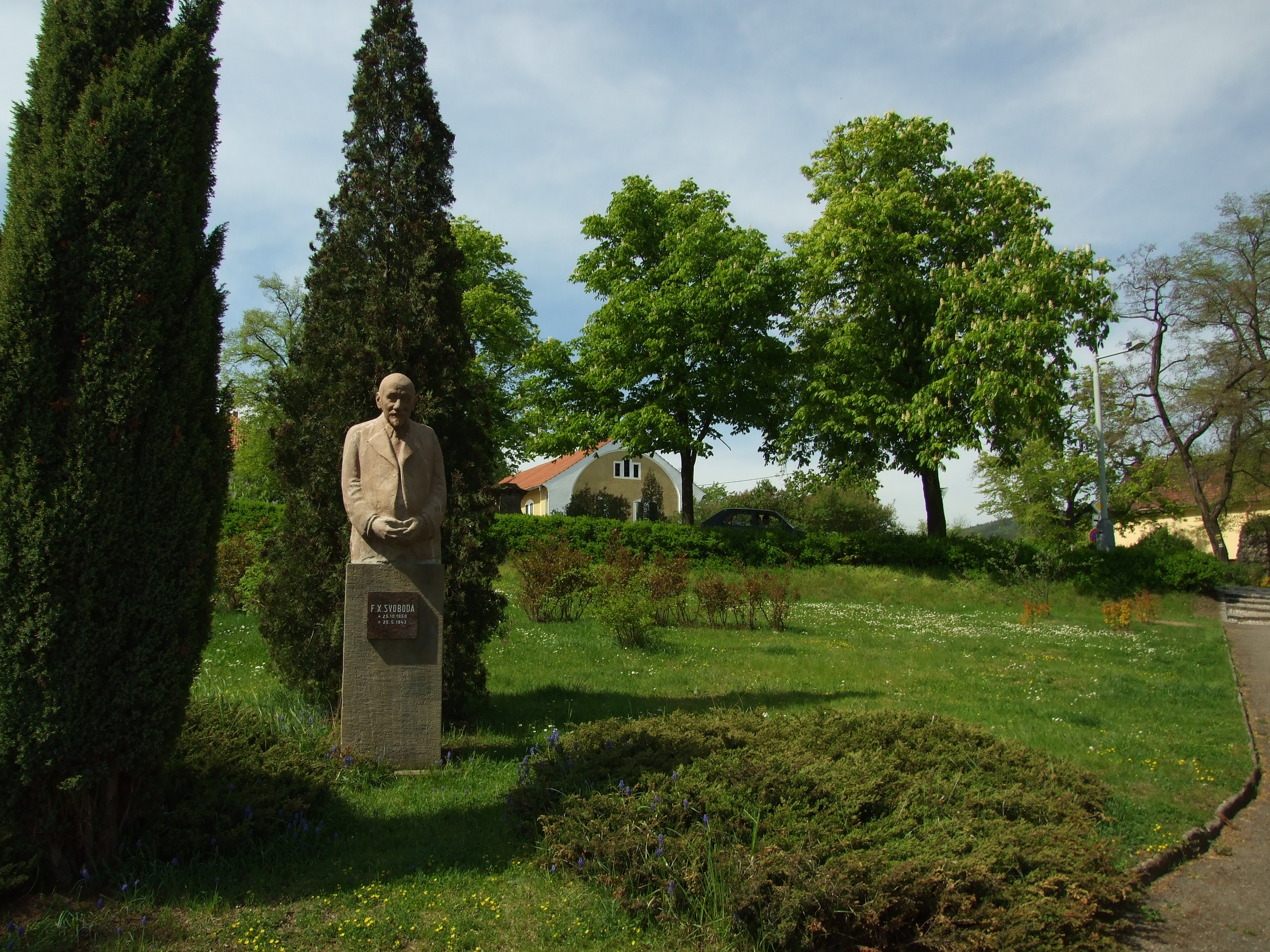 Town of Mníšek pod Brdy and its surrounding nature in Central Bohemian region, CZhelp